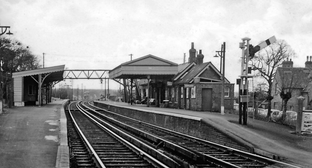 Bentley (Hants.) Station. View SW, towards Alton; London - Woking - Farnham - Alton line. Junction for Bordon branch, until 16/9/57 (goods 4/4/66).